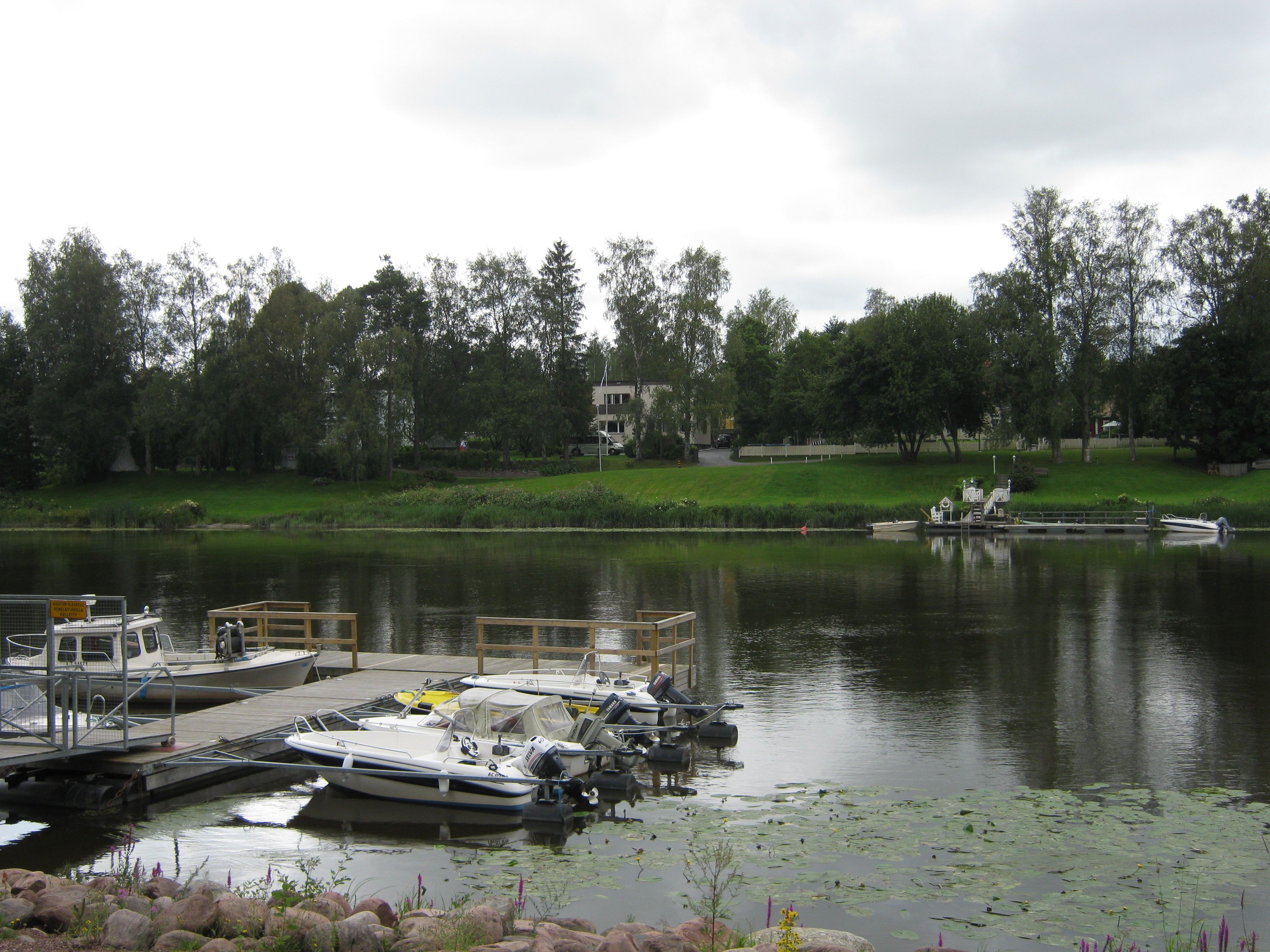 River Kokemäenjoki at Ulvila, Finland.